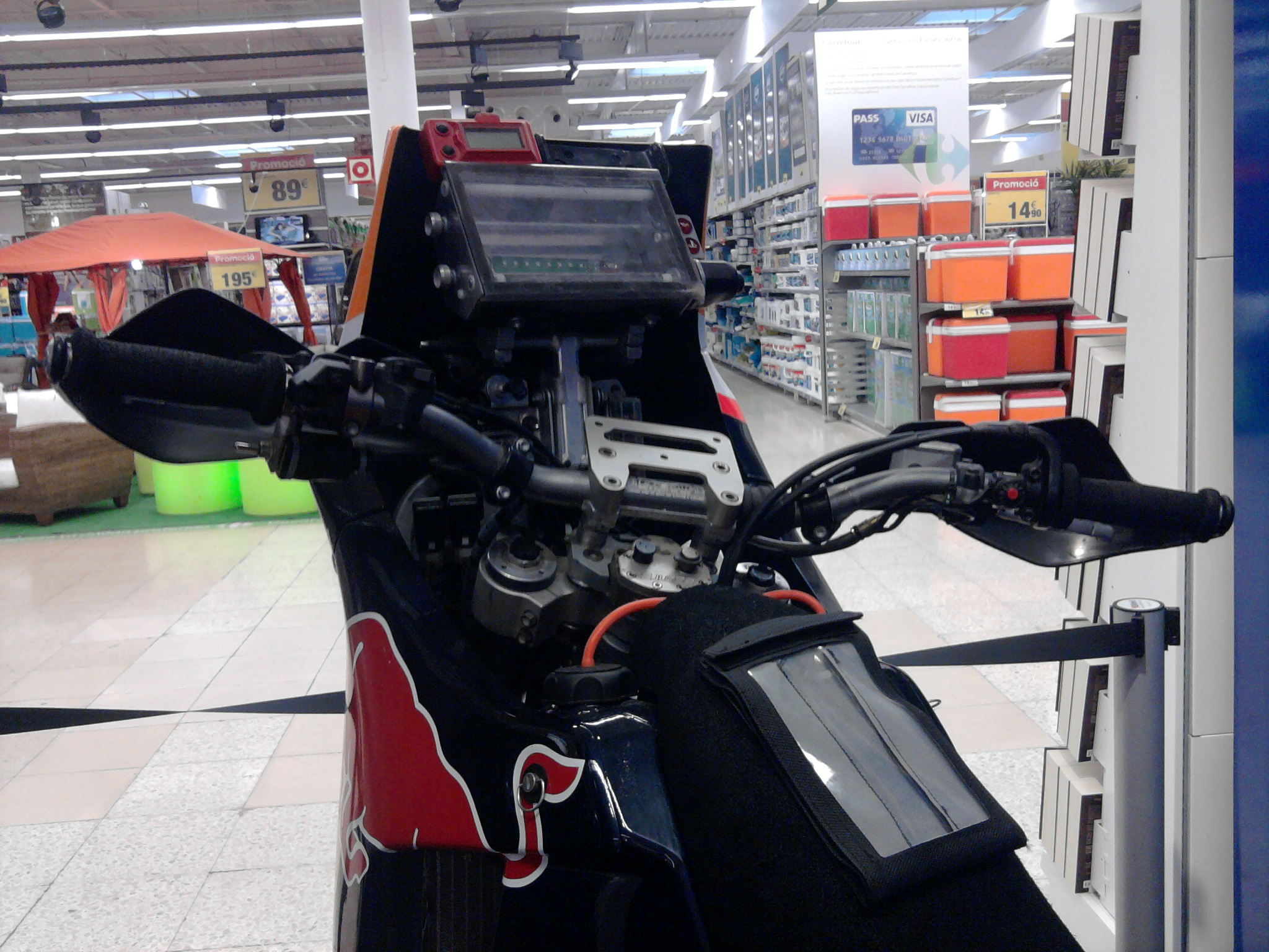 KTM 660, winner of 2006 Dakar Rally ridden by Marc Coma, after 15 days running 9,043 kms by 7 countries (231 motorcycles started, 93 arrived).Exposed at Carrefour Market in Cabrera de Mar (Catalonia).